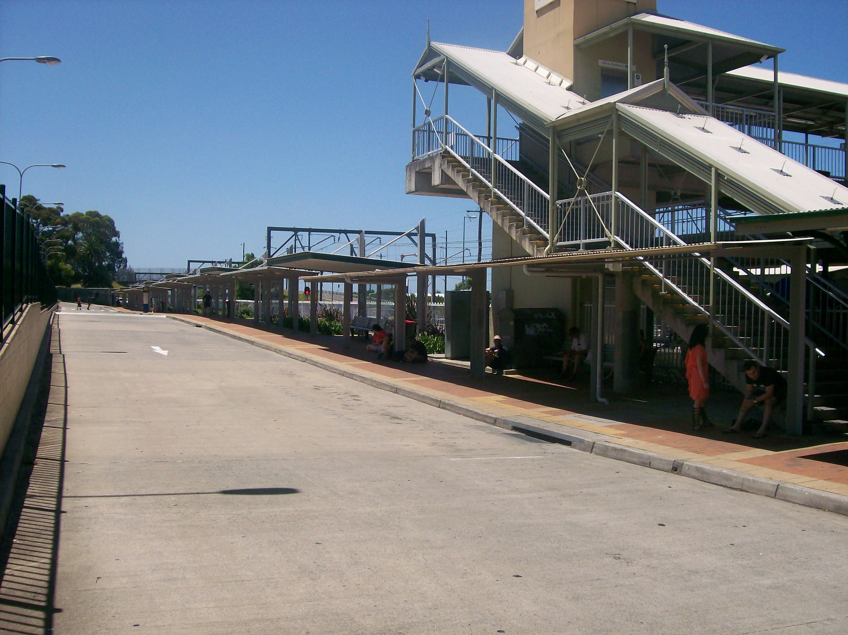 Wyong railway station bus stop bay